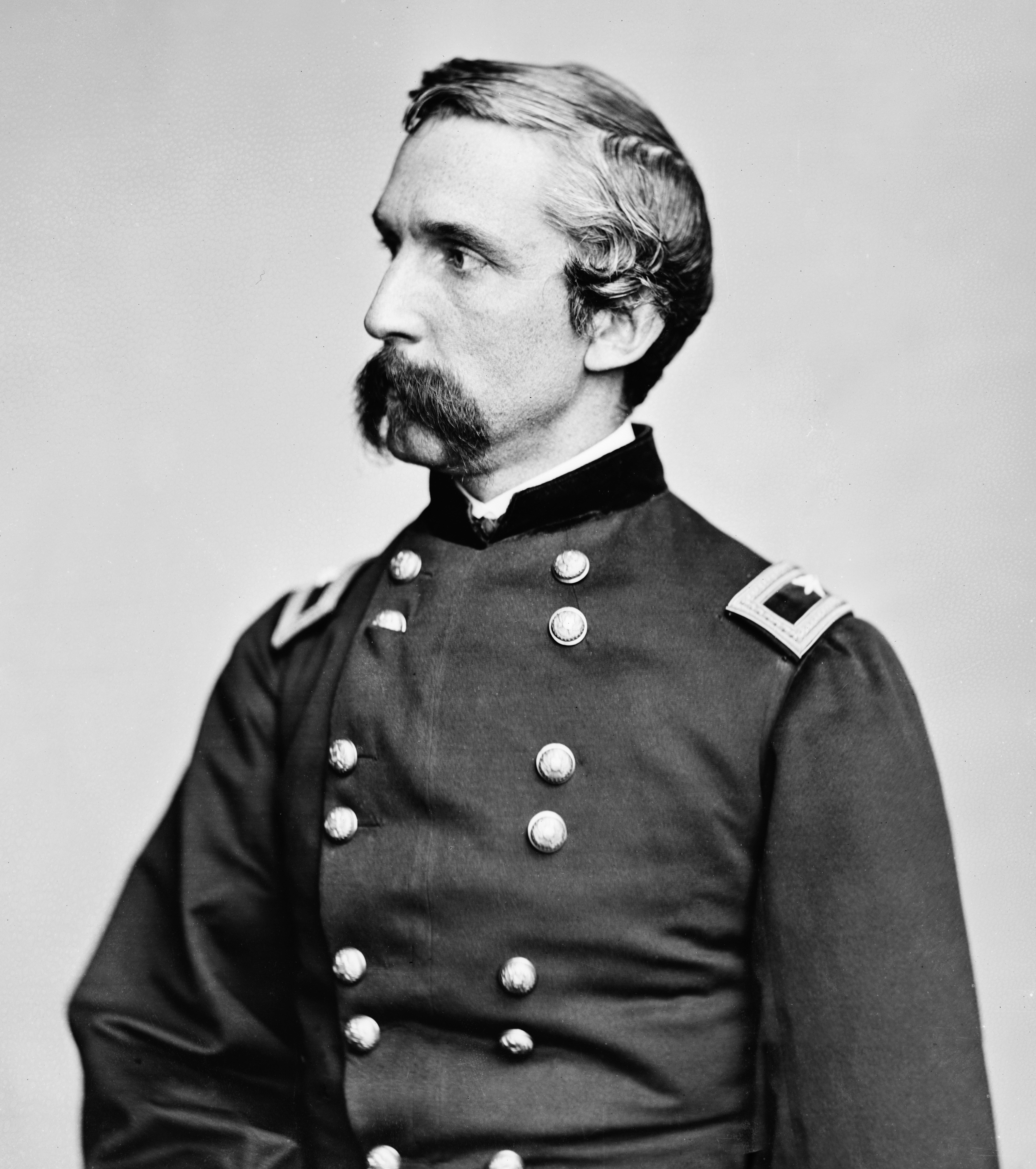 Joshua Chamberlain. Library of Congress description: "General Joshua L. Chamberlain"